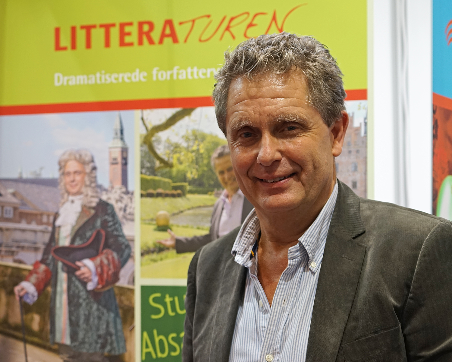 Christian Steffensen - Danish actor at the Copenhagen Book Fair "BogForum 2015", Copenhagen, Denmark